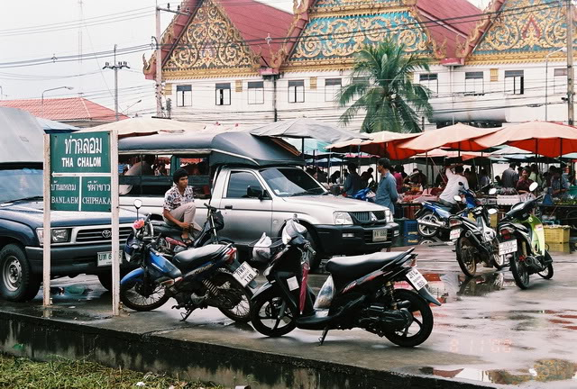 Thachalom railway station Thailand